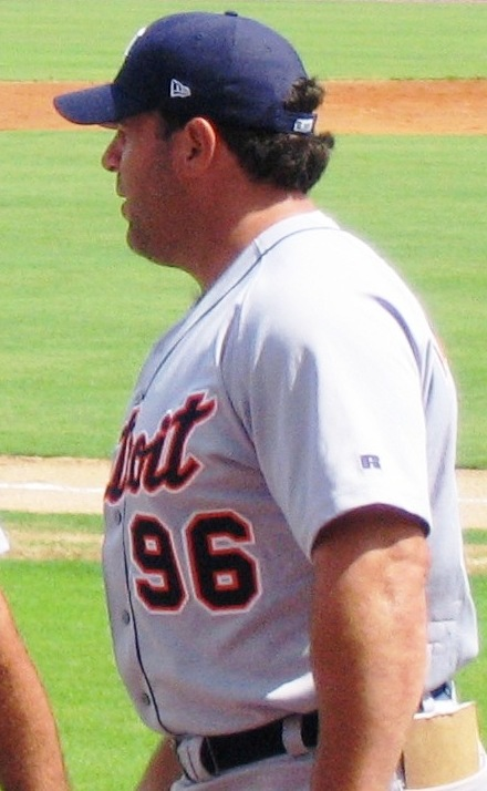 Justin Verlander of the Detroit Tigers walks off the field during the 2005 Florida Instructional League